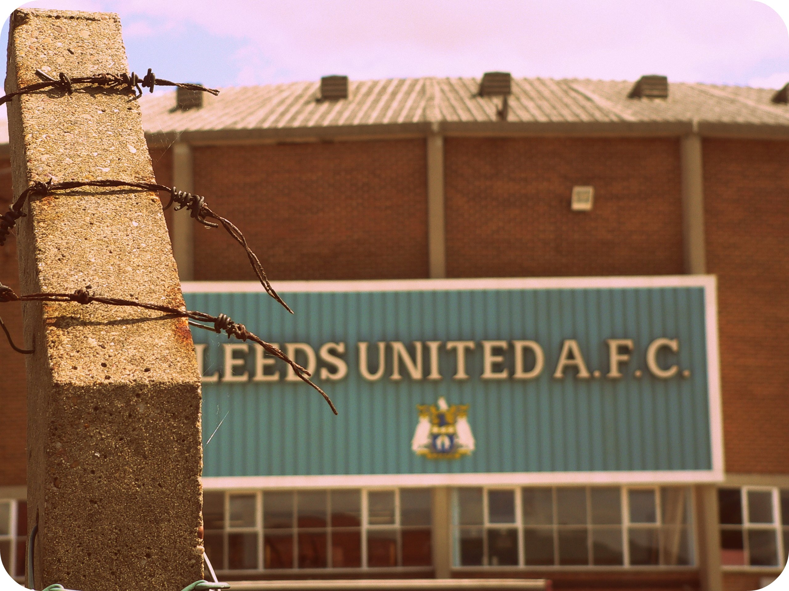 The West Stand at Elland Road, altered to it looked similar to the structure of the 1970s for the film 'The Damned United'. Taken on the 20th June 2009.